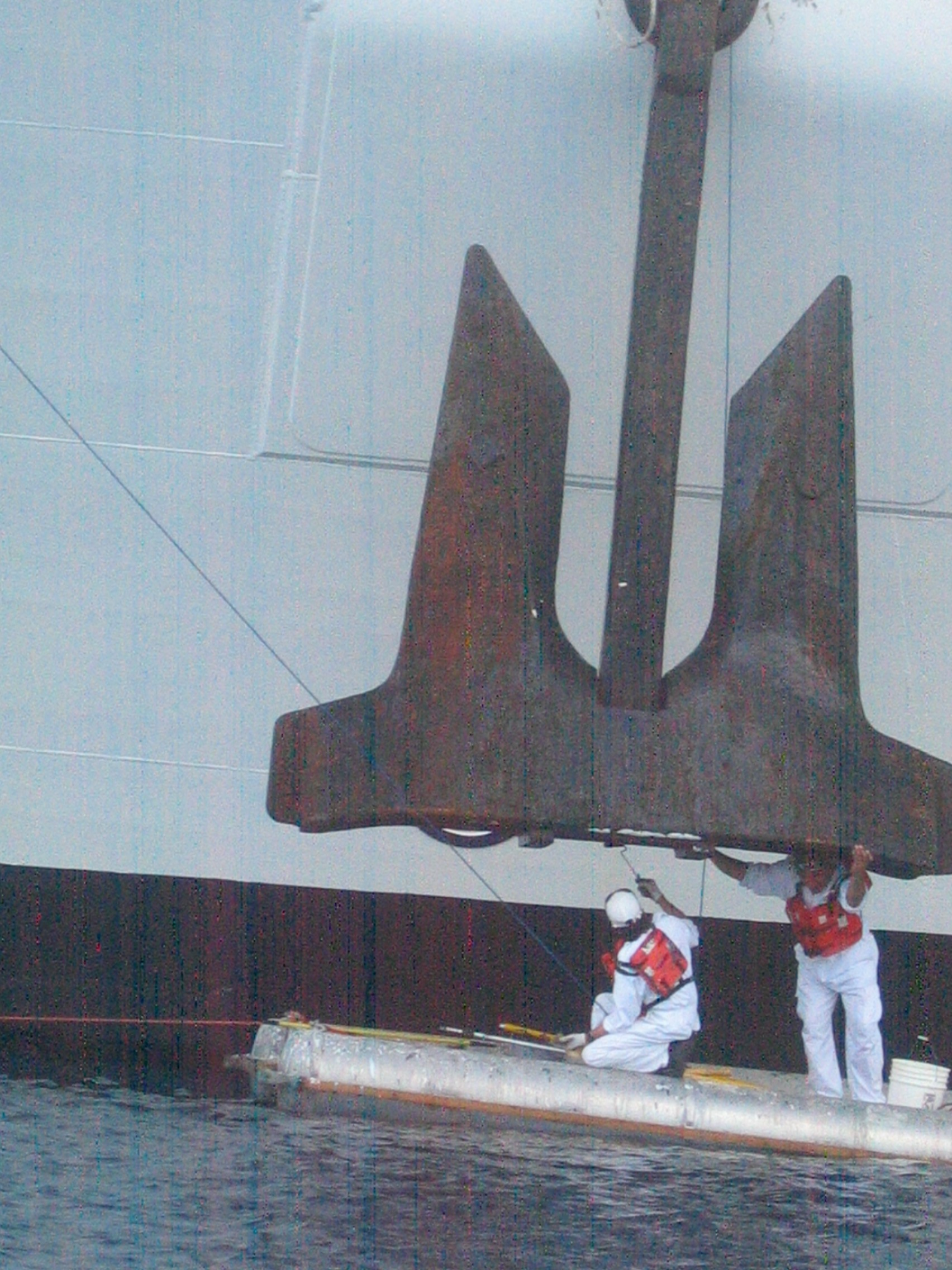 Anchor of Norwegian Cruise Line's ship Norwegian Jewel, raised for maintenance by two ship's workers on a raft. Outside the port of Roatan Island, Honduras, Central America.